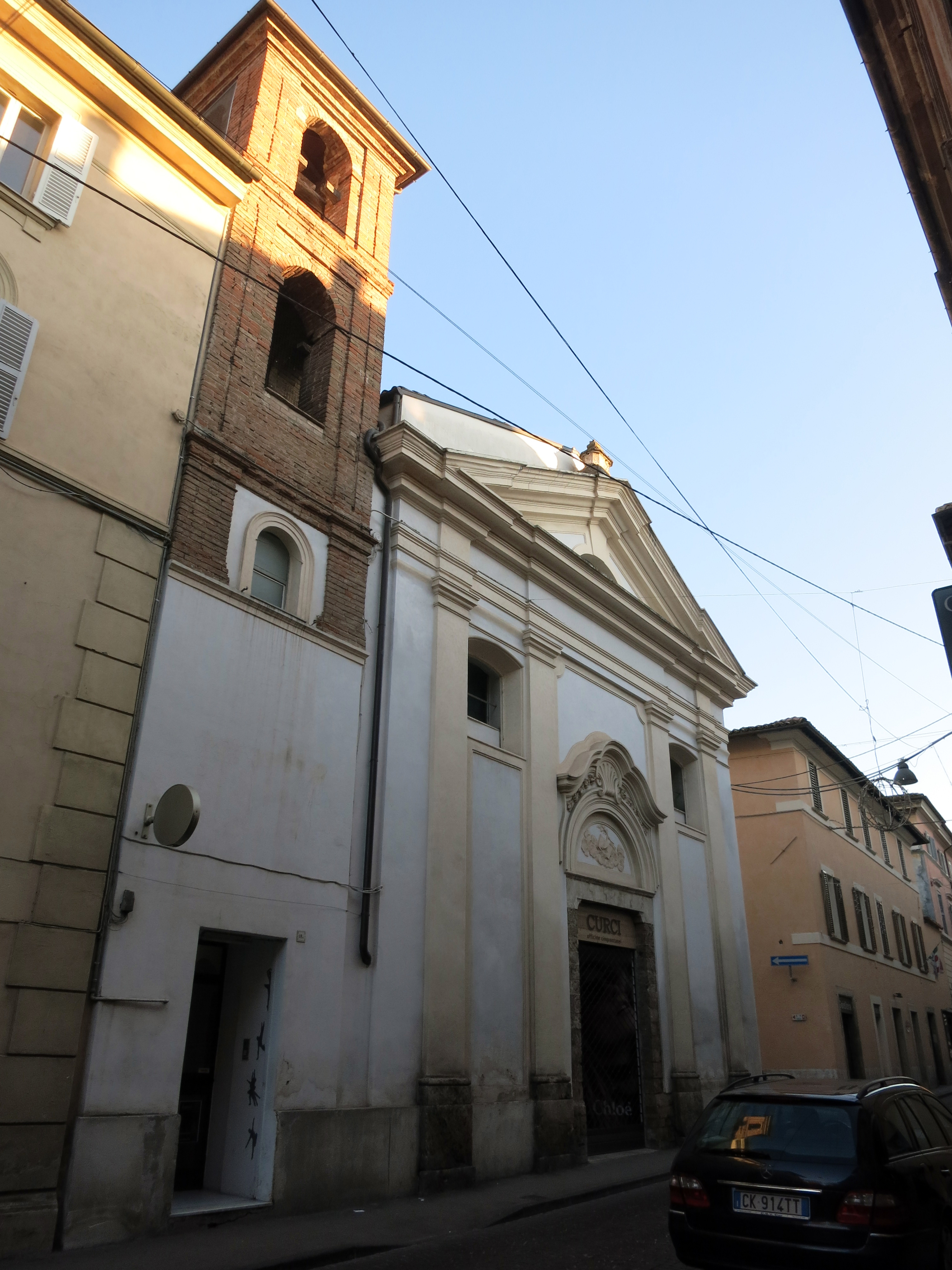 Former church of San Donato (now deconsecrated) - Rieti, Lazio, Italy